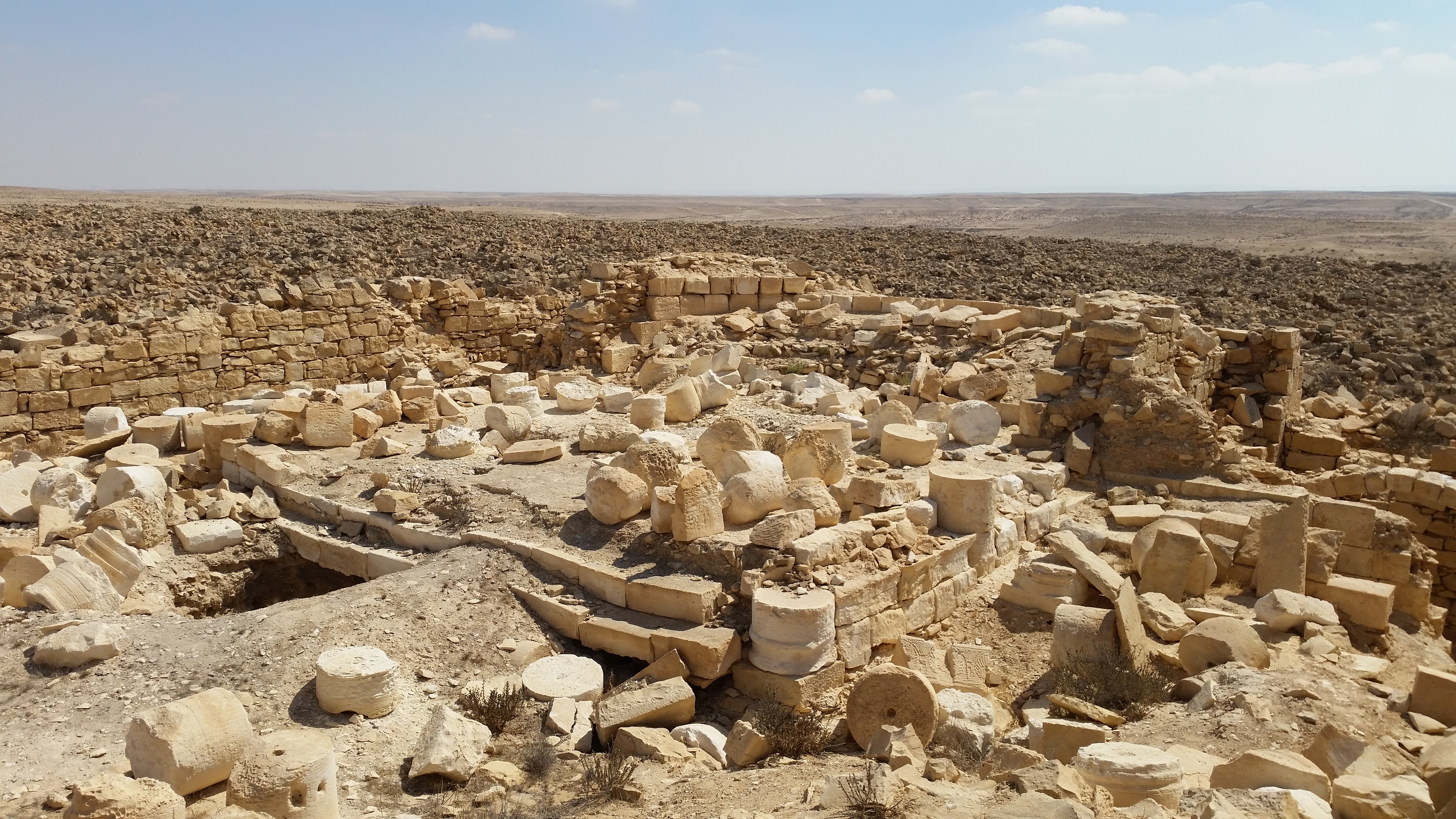 Ruheibe - probably a church